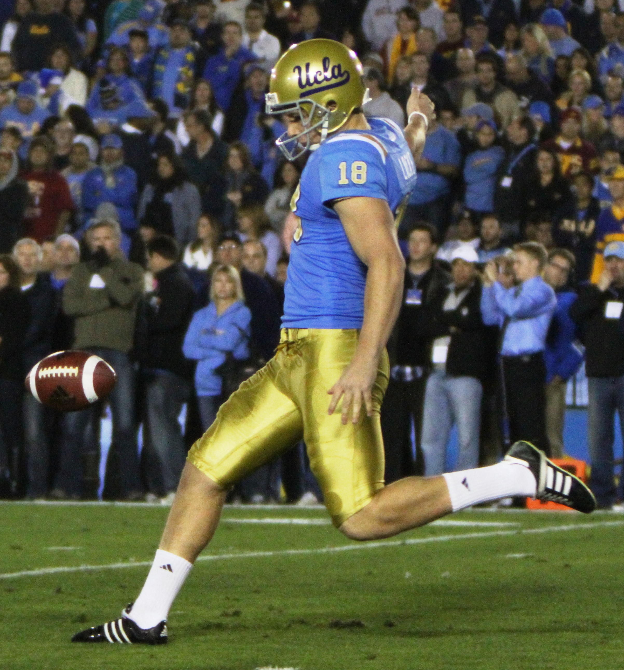 The UCLA Bruins fell 28-14 to crosstown rival USC at the Rose Bowl Saturday, December 4, 2010. (Shotgun Spratling/Neon Tommy)